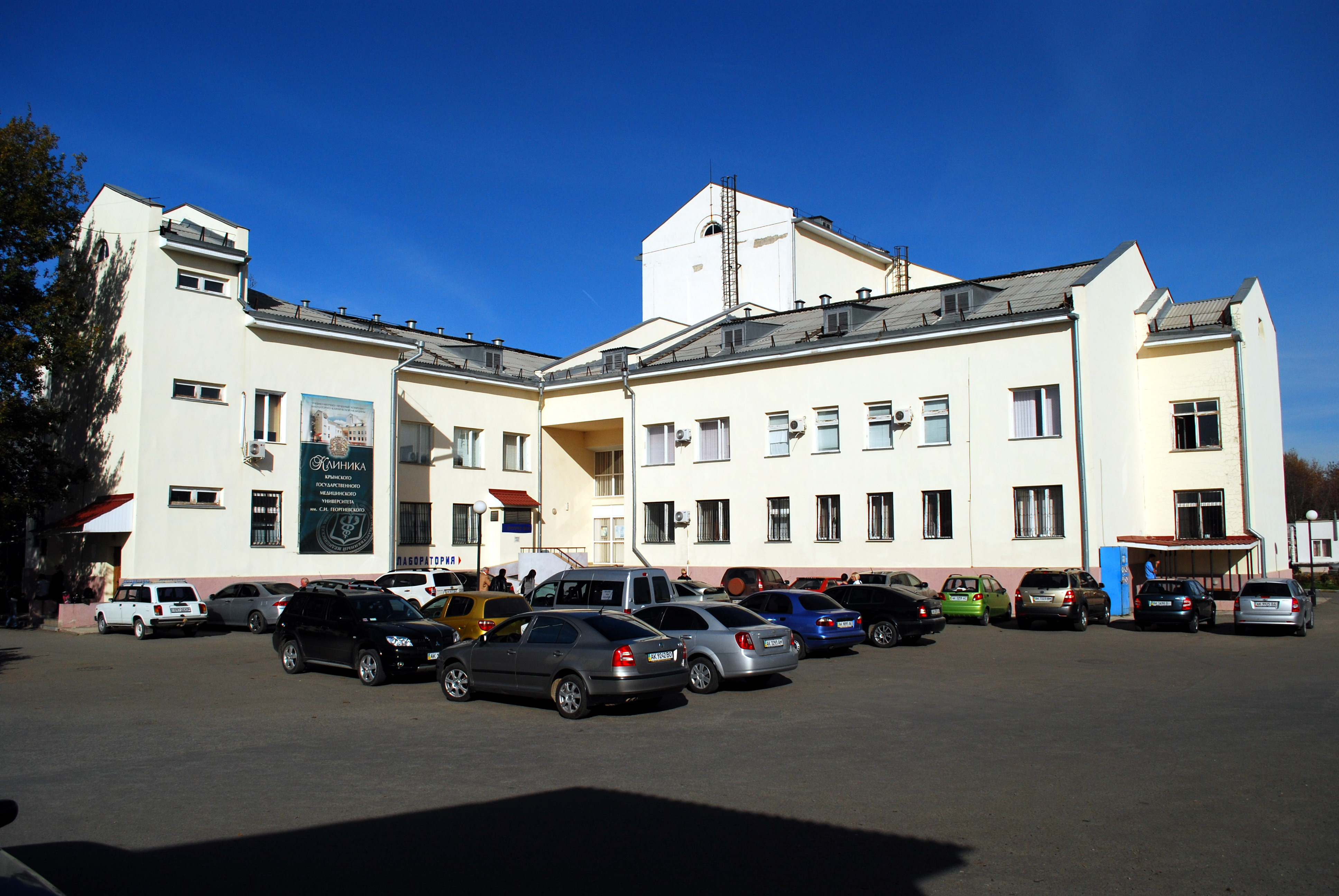 The building of the medical clinic of Crimea Medical University (Simferopol, Ukraine)